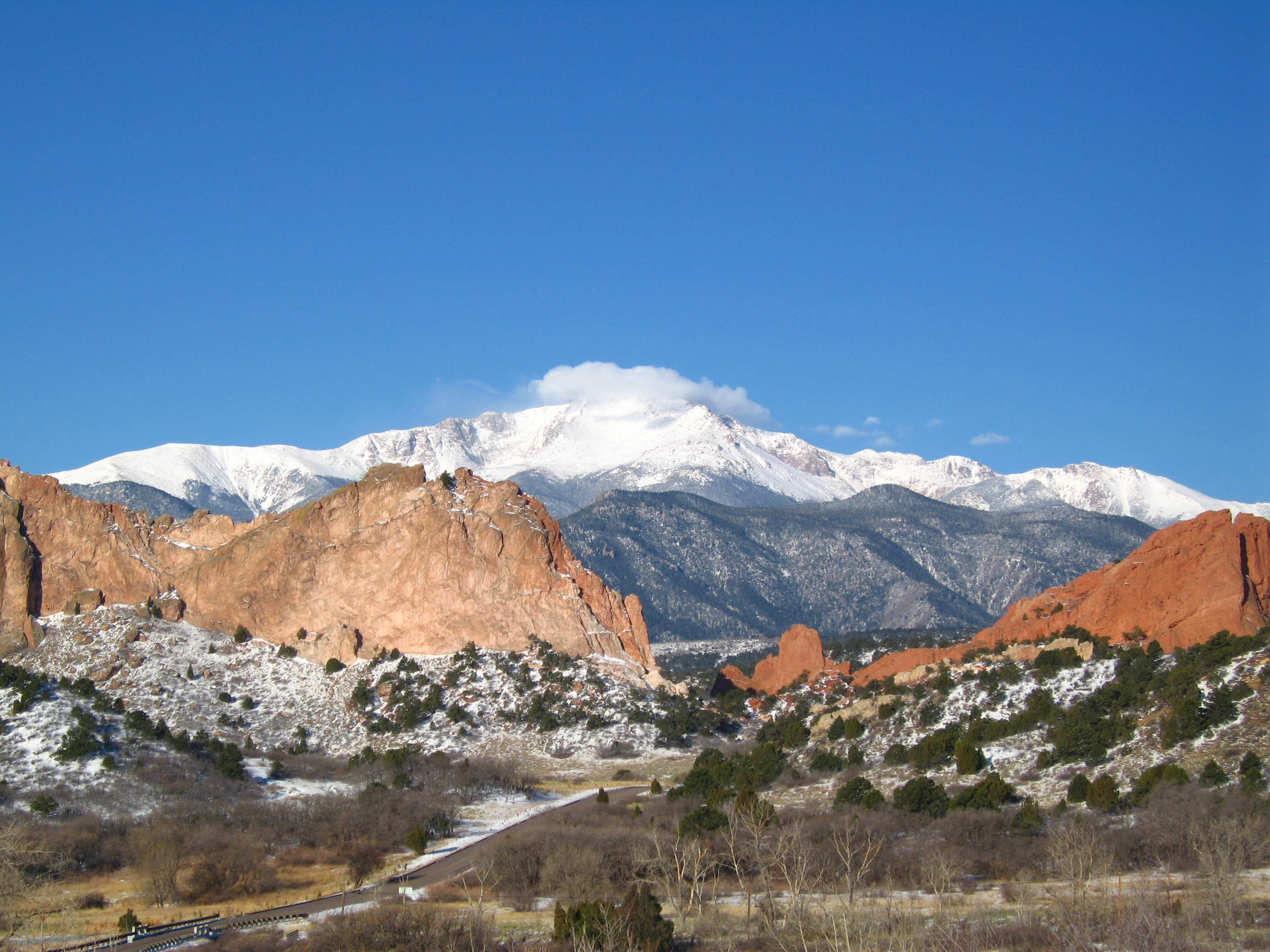 Pikes Peak from the Garden of the Gods. In 1859, Rufus Cable replied, "This is a fit place for a garden of the gods. Let that be its name." And so it became.IMG_3123